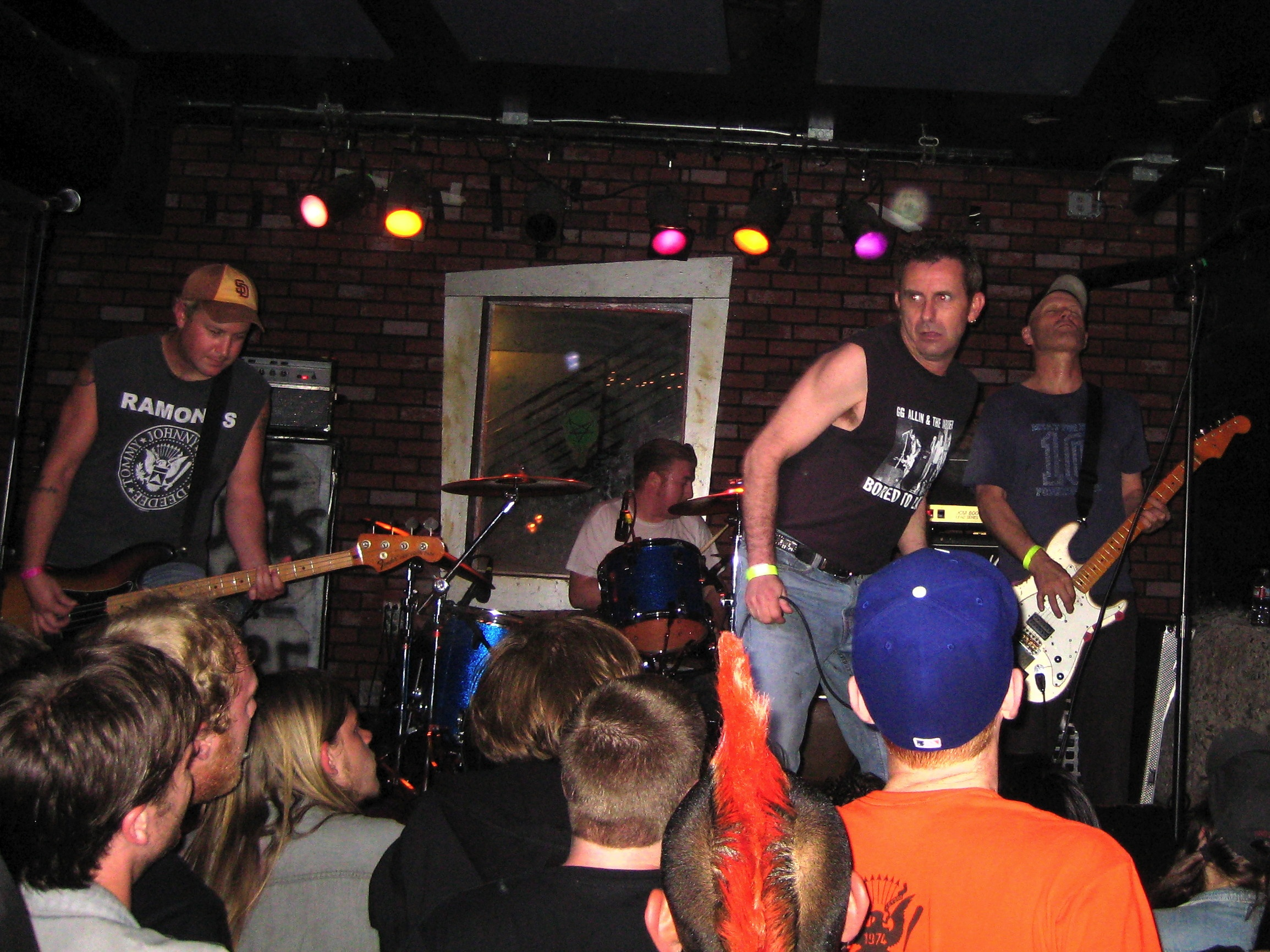 The Queers in 2009